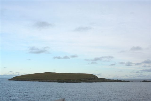 Nista